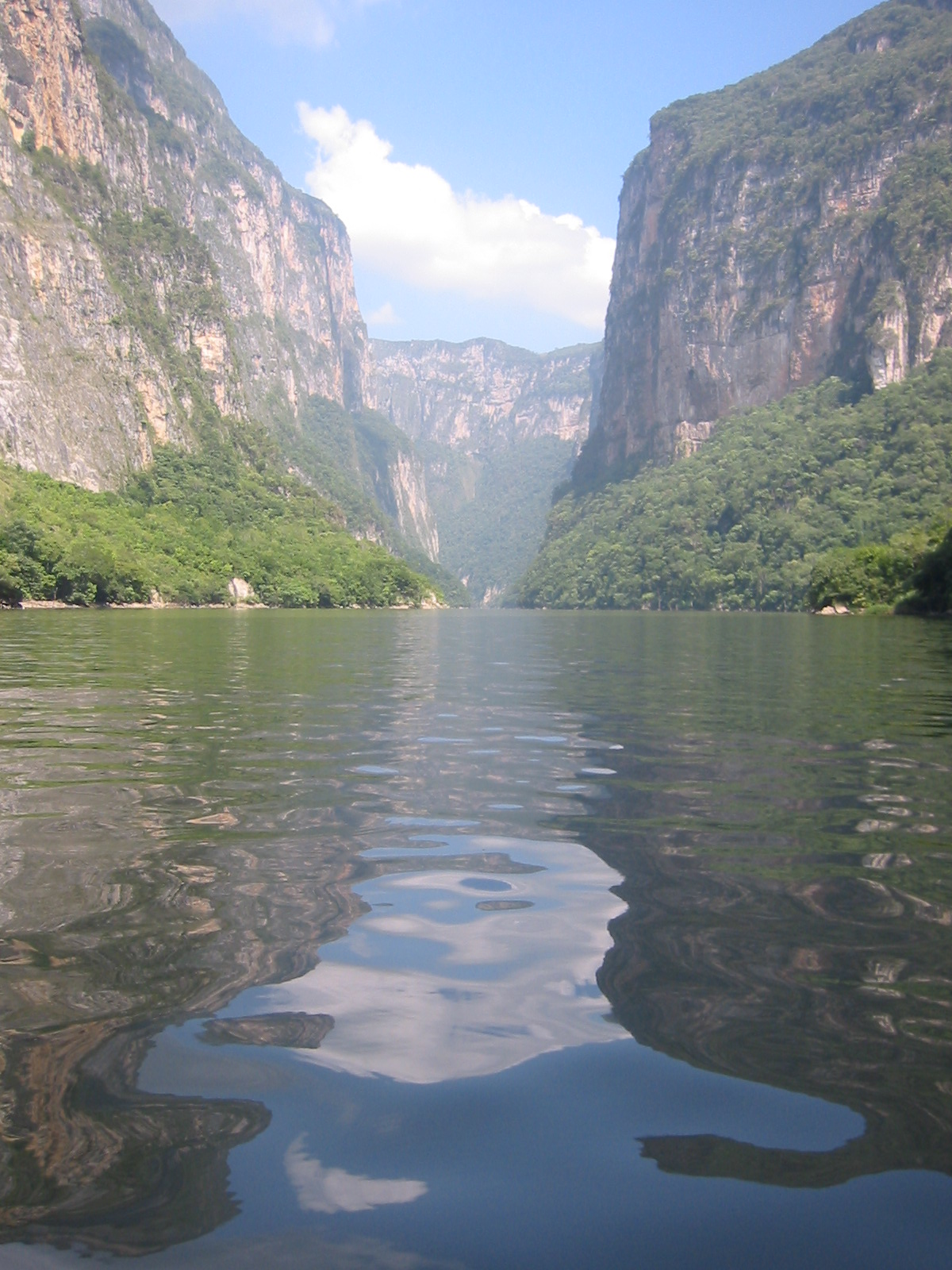 Grijalva River in Sumidero Canyon — in the state of Chiapas, Southwestern Mexico.